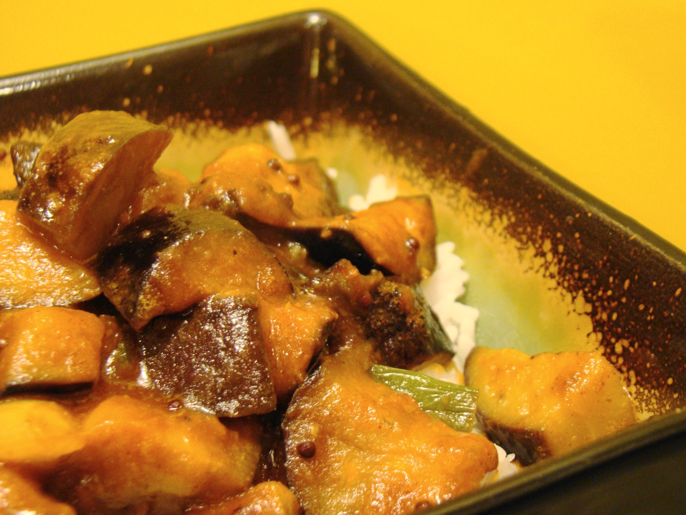 Recipe to follow. Here it is: 2 1/2 tablespoons coriander seeds, dry-roasted and ground 1 tablespoon cumin seed, dry roasted and ground 1 teaspoon brown mustard seeds 1/2 teaspoon cracked black peppercorns 1 teaspoon cayenne powder ½ teaspoon red chili flakes 1 teaspoon ground turmeric 2 crushed garlic cloves 2 teaspoons grated fresh ginger 1 teaspoon cinnamon, ground 1 tablespoon cardamom, ground 4 tablespoons white vinegar This will make a paste that you may refrigerate up to 2 weeks. Put all ingredients except vinegar into small bowl and mix together well. Add the vinegar and mix to a smooth paste. ¼ piece of lemongrass 1 cup pureed tomato 3 Japanese Eggplant, cubed 2 scallions, sliced Coconut milk 2-3 tablespoons Curry paste In a pan, sauté the scallion and eggplant with the tomatoes- add curry paste and enough coconut milk to make a nice sauce (1-11/2 cups) Addthe lemongrass and simmer 15-20 minutes. Remove the lemongrass before serving. Adjust the seasoning as you like and serve over rice. Serves 2-4 depending on course size.